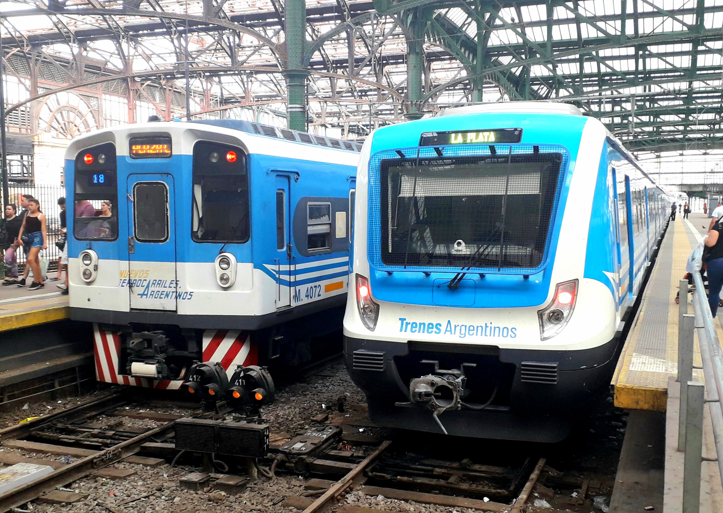 Two electric trains at Constitution Station of Buenos Aires City, in January 2020. On the left, a Toshiba (1985); on the right, a CSR (2014), both operating for Roca Railway of Trenes Argentinos.